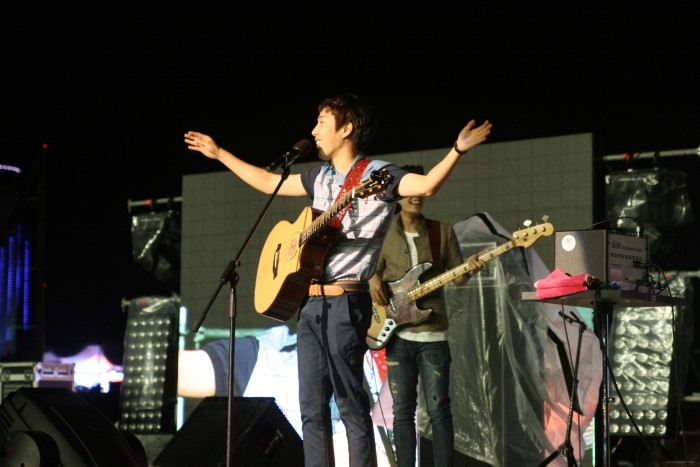 Busker Busker in June 15, 2012, during the Expo 2012 Yeosu.